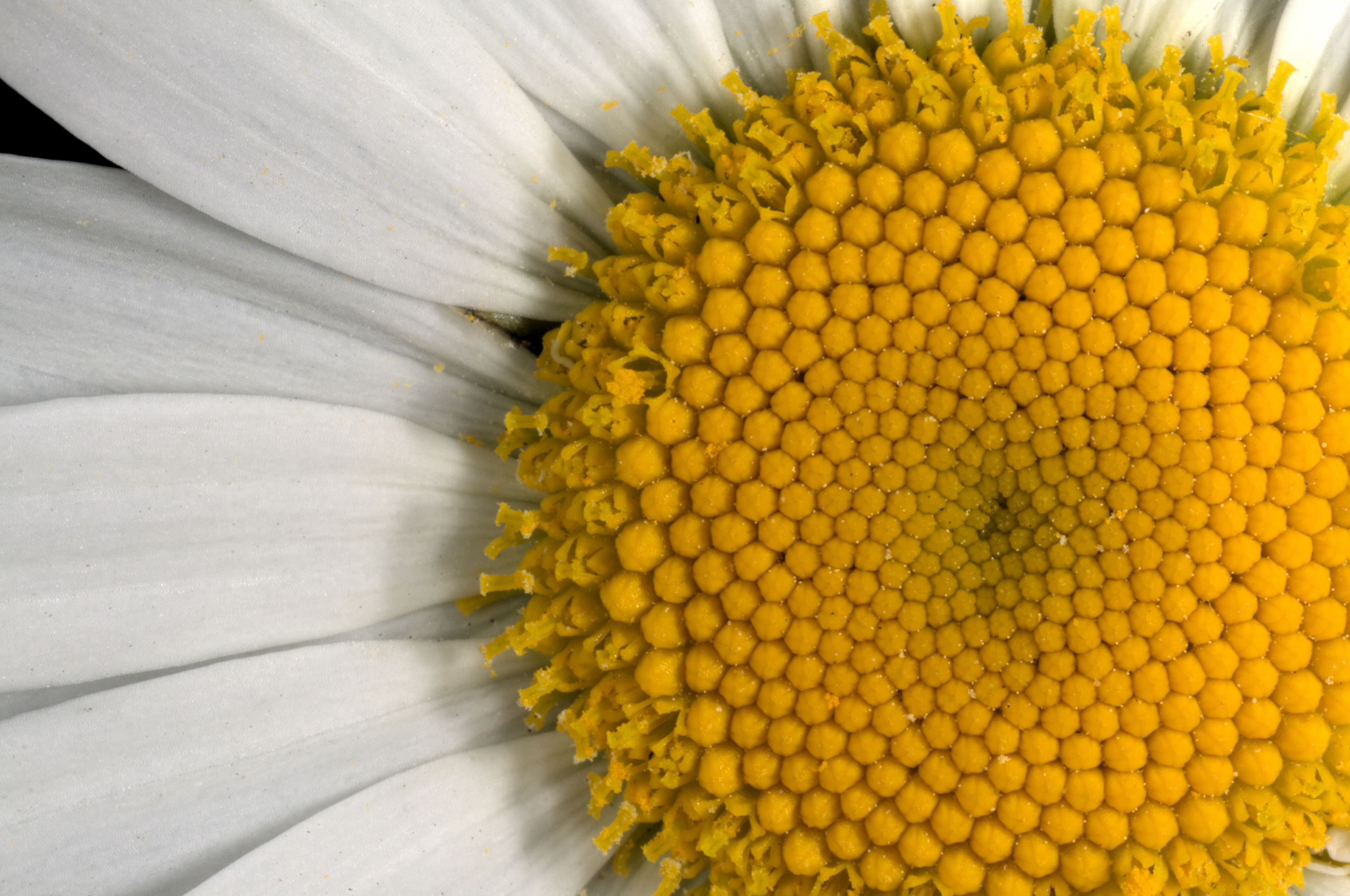 Leucanthemum vulgare